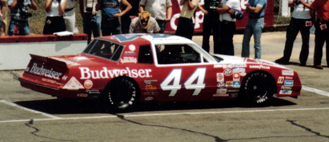 The Billy Hagan owned Budweiser Chevy #44 of Terry Labonte finished 9th in the 1983 Van Scoy 500.Terry Labonte #44